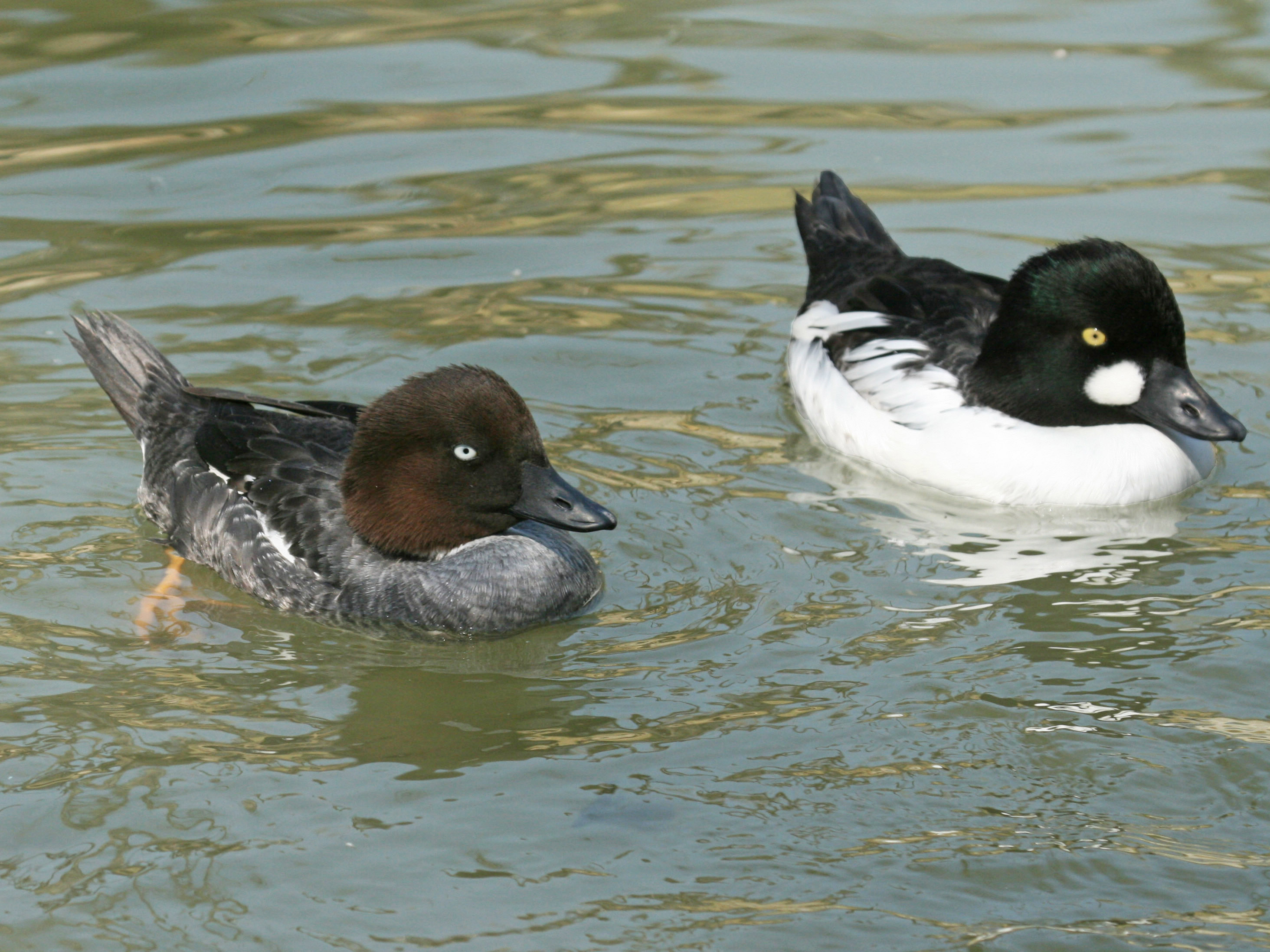 Common Goldeneye (Bucephala clangula) at Sylvan Heights Waterfowl Park in Scotland Neck, North Carolina.